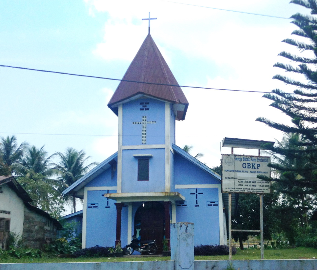 GBKP Rg Rumah Pil-pil, Klasis Sibolangit, Church in Rumah Pil-pil, Sibolangit, Deli Serdang